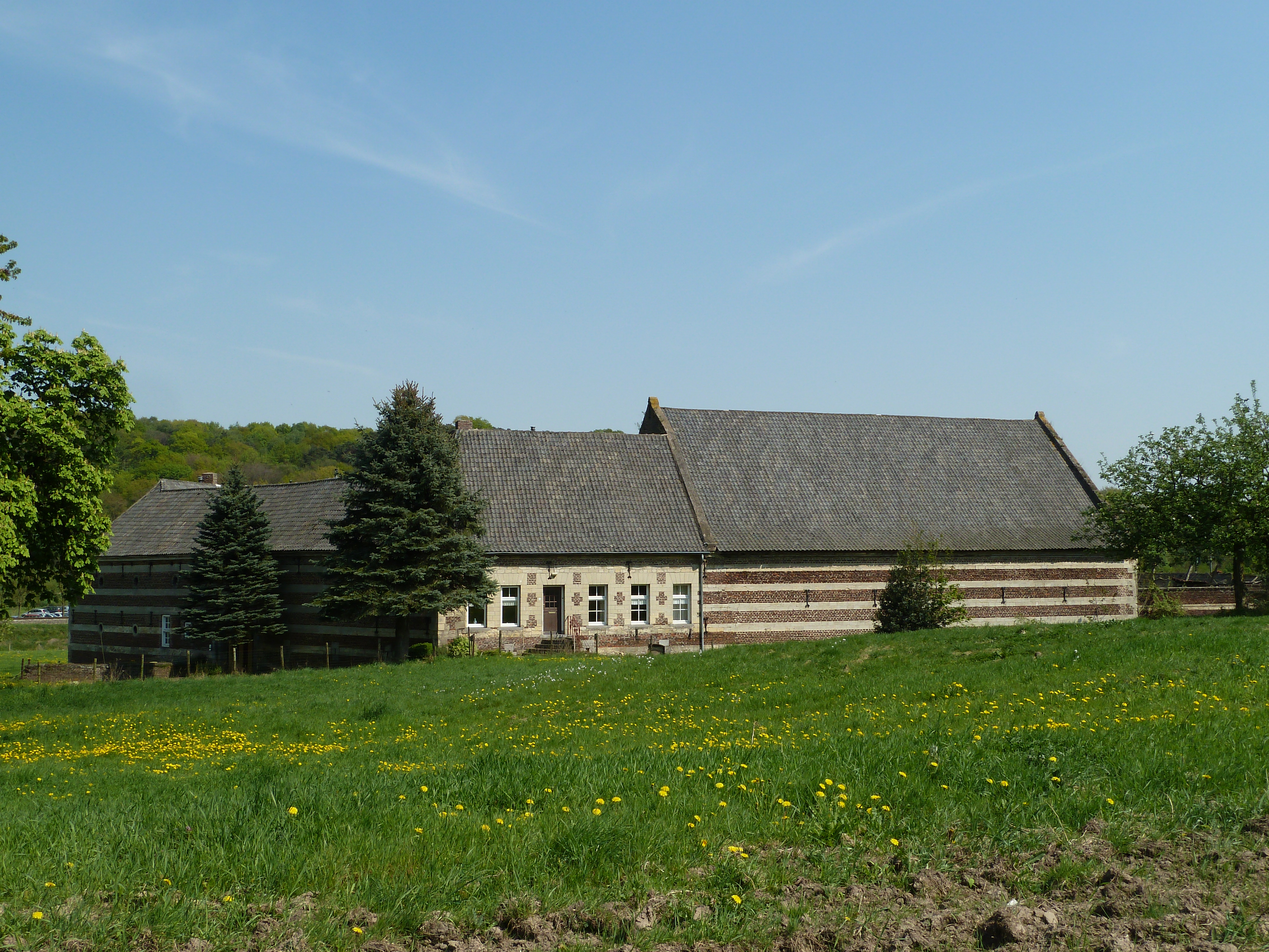 Castle Jansgeleen, Spaubeek, Limburg, the Netherlands